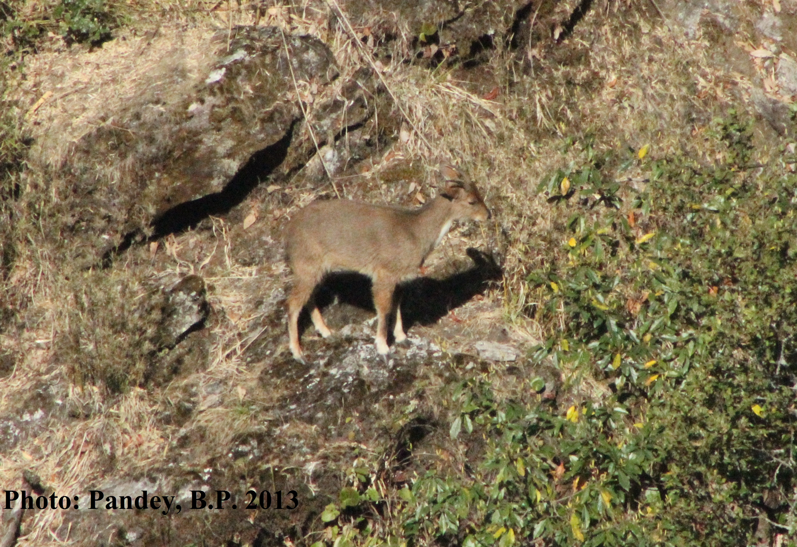 Goral loves cliff areas for clear vision and safety from predators